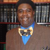 Dr. Tracy Andrus